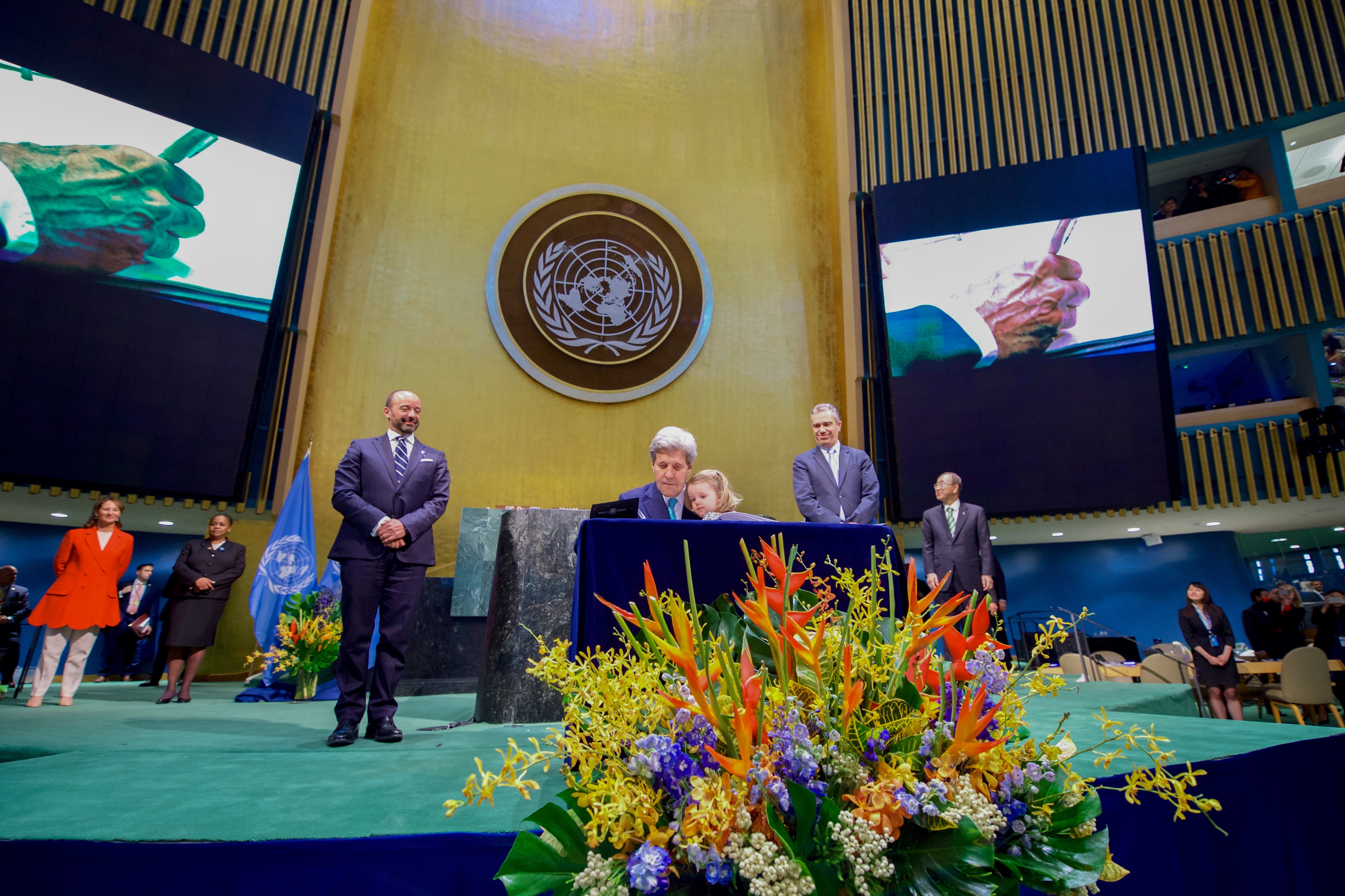 U.S. Secretary of State John Kerry, with his two-year-old granddaughter Isabelle Dobbs-Higginson on his lap and United Nations Secretary-General Ban ki-Moon looking on, signs the COP21 Climate Change Agreement (Paris Agreement) on behalf of the United States during a ceremony on Earth Day, April 22, 2016, at the U.N. General Assembly Hall in New York, N.Y. [State Department photo/ Public Domain]